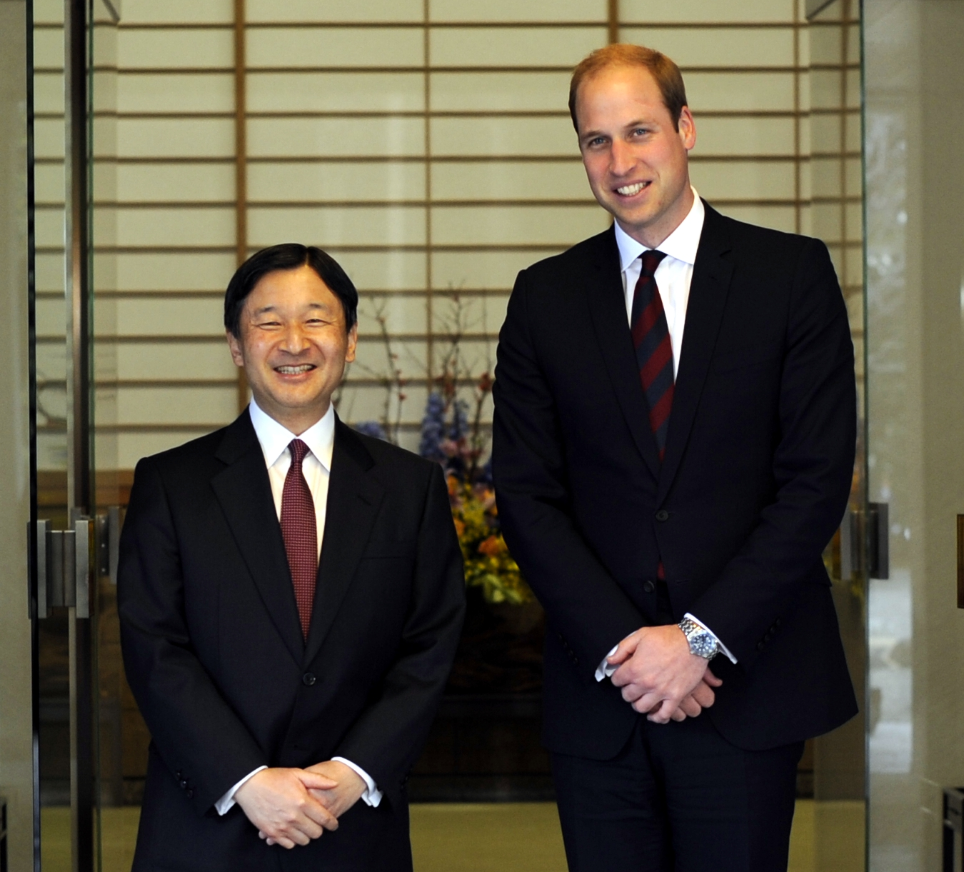 Prince William met Crown Prince Naruhito at the Crown Prince's Residence in Minato Ward, Tōkyō Metropolis on February 27, 2015.